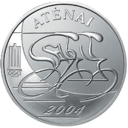 50 Litas coin to mark the XXVIII Olympic Games in Athens Silver Ag 925 Quality proof Diameter 38.61 mm Weight 28.28 g The words on the edge of the coin: XXVIII OLIMPIADOS ZAIDYNES (XXVIII OLYMPIC GAMES) Designed by Giedrius Paulauskis Mintage 2,000 pcs Issued 2003 The coin was minted at the state enterprise Lithuanian Mint.